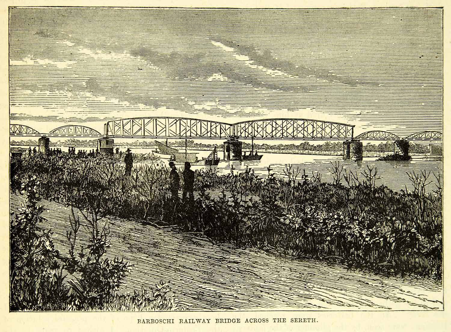 Wood engraving of the Barboschi Railway Bridge, over the Sereth (or Siret) River, published 1883. Also used on page 176 of the 1877 book "Cassell's Illustrated History of the Russo-Turkish War, etc", see [1].